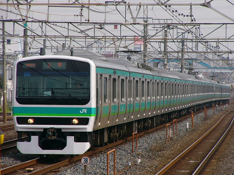 East Japan railway series"E231" Joban line. (Mabashi station,Chiba,Japan.)